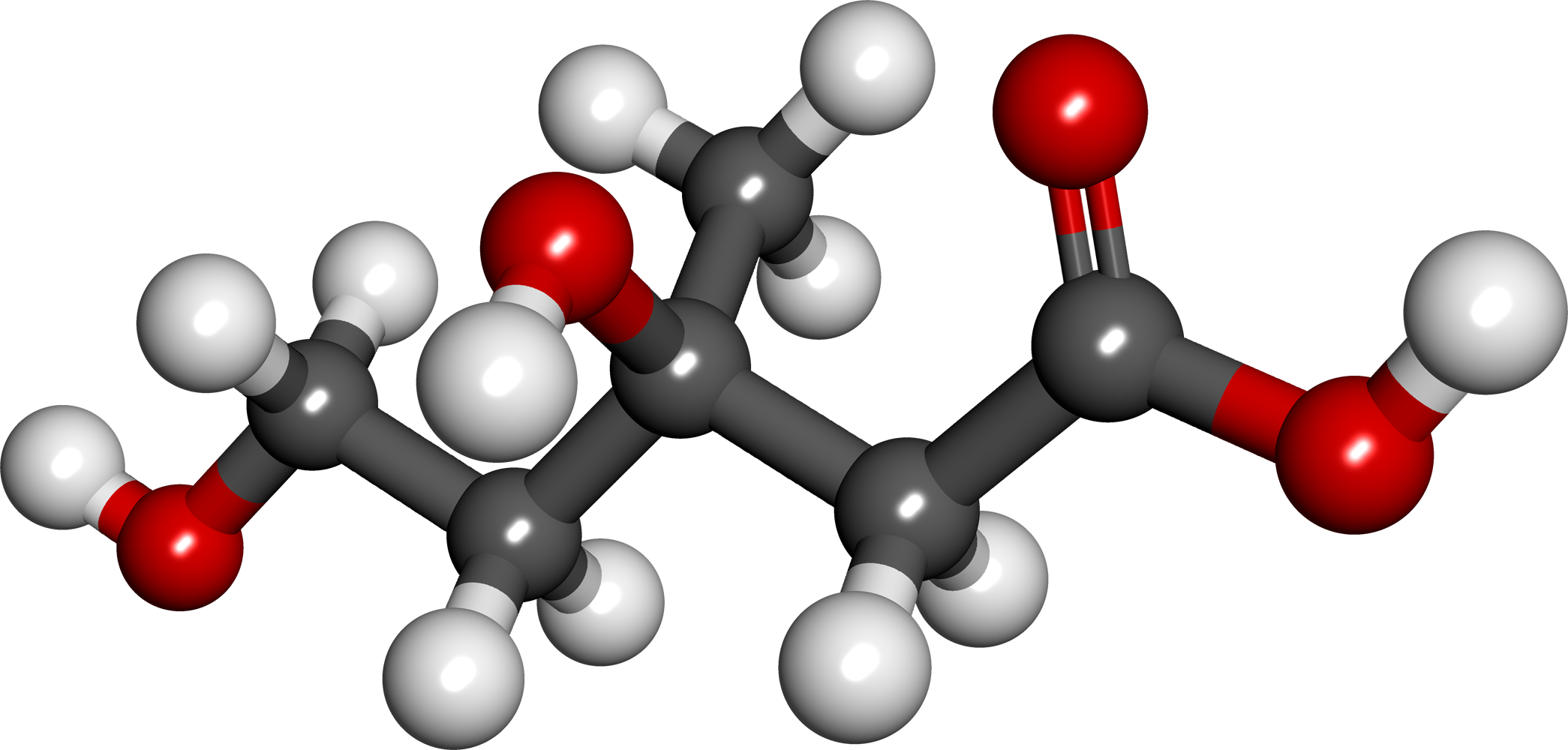 A ball-and-stick diagram of mevalonic acid.